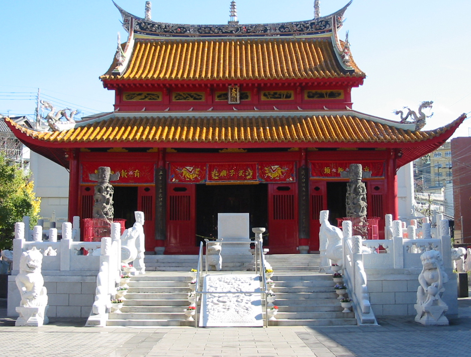 A Confucian Temple in Nagasaki, Nagasaki prefecture, Japan.